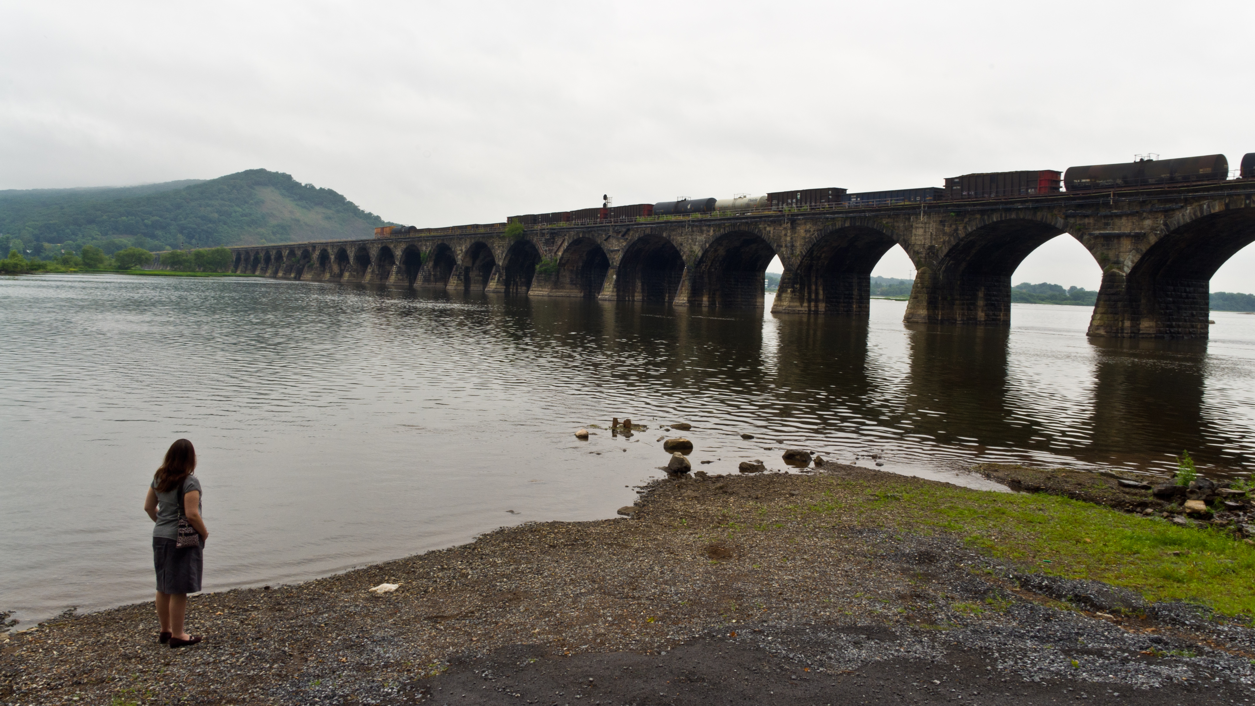 At the time of its completion in 1902, this was the longest stone masonry bridge in the world at 3,820 feet in length. (source)